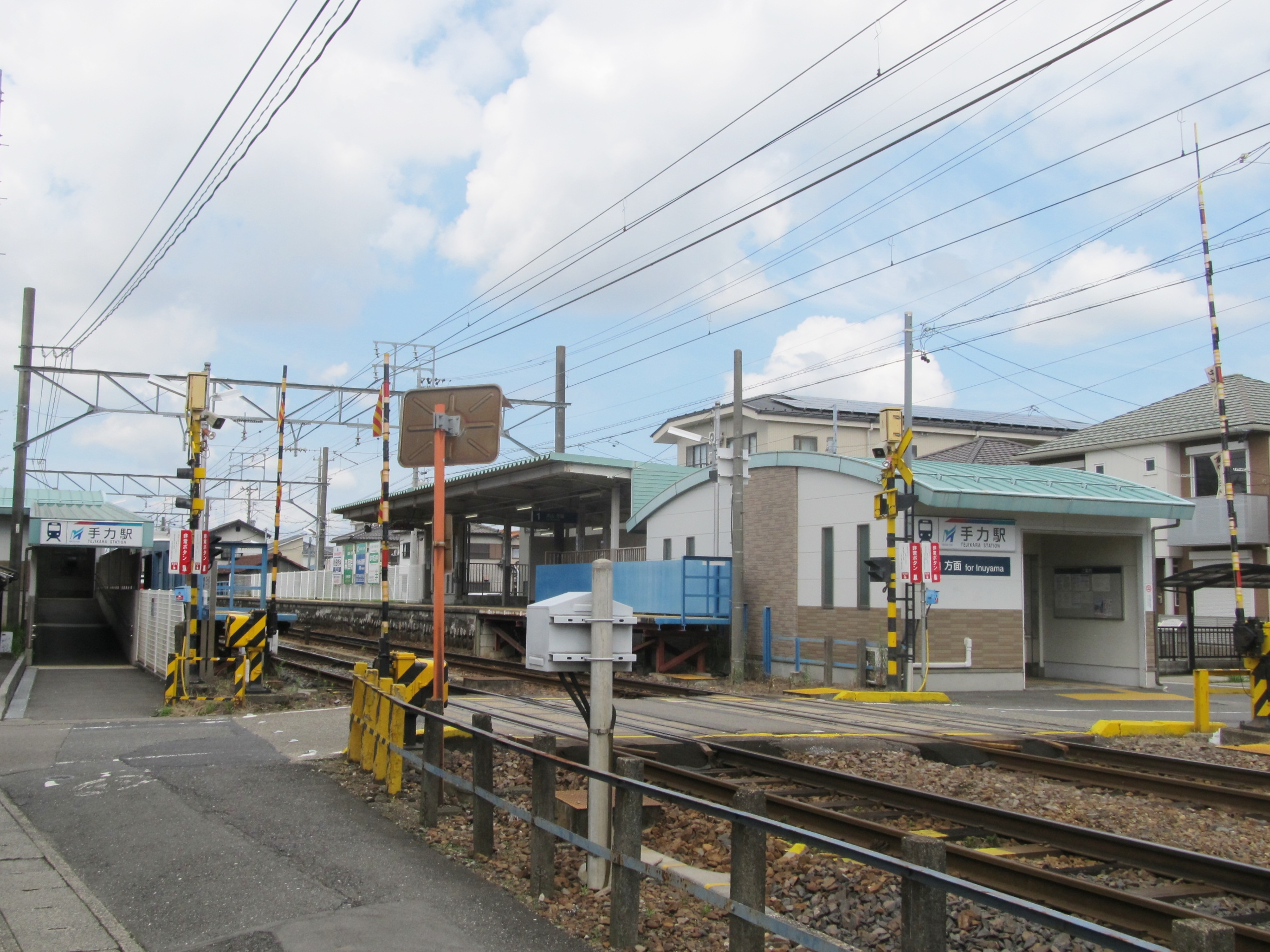 Nagoya Railroad Kakamigahara Line Tejikara Station Building